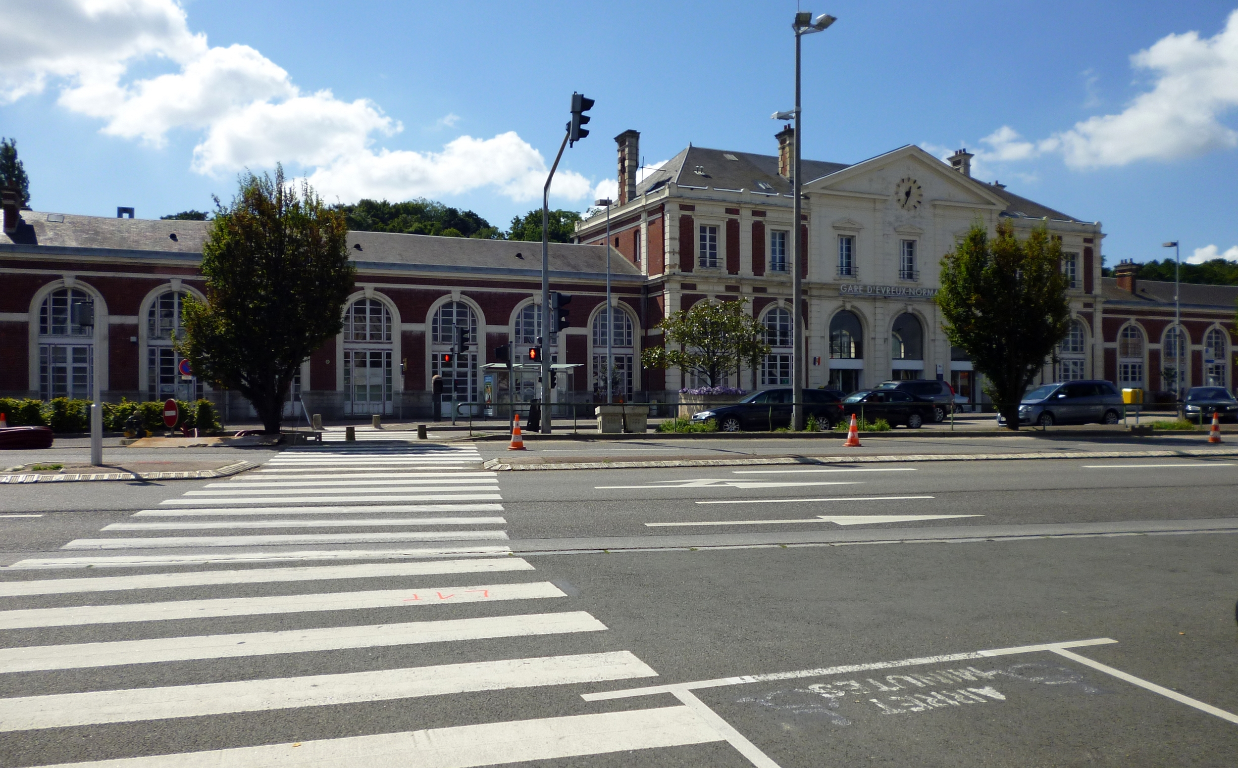 Train station of Évreux. Built in 1887.